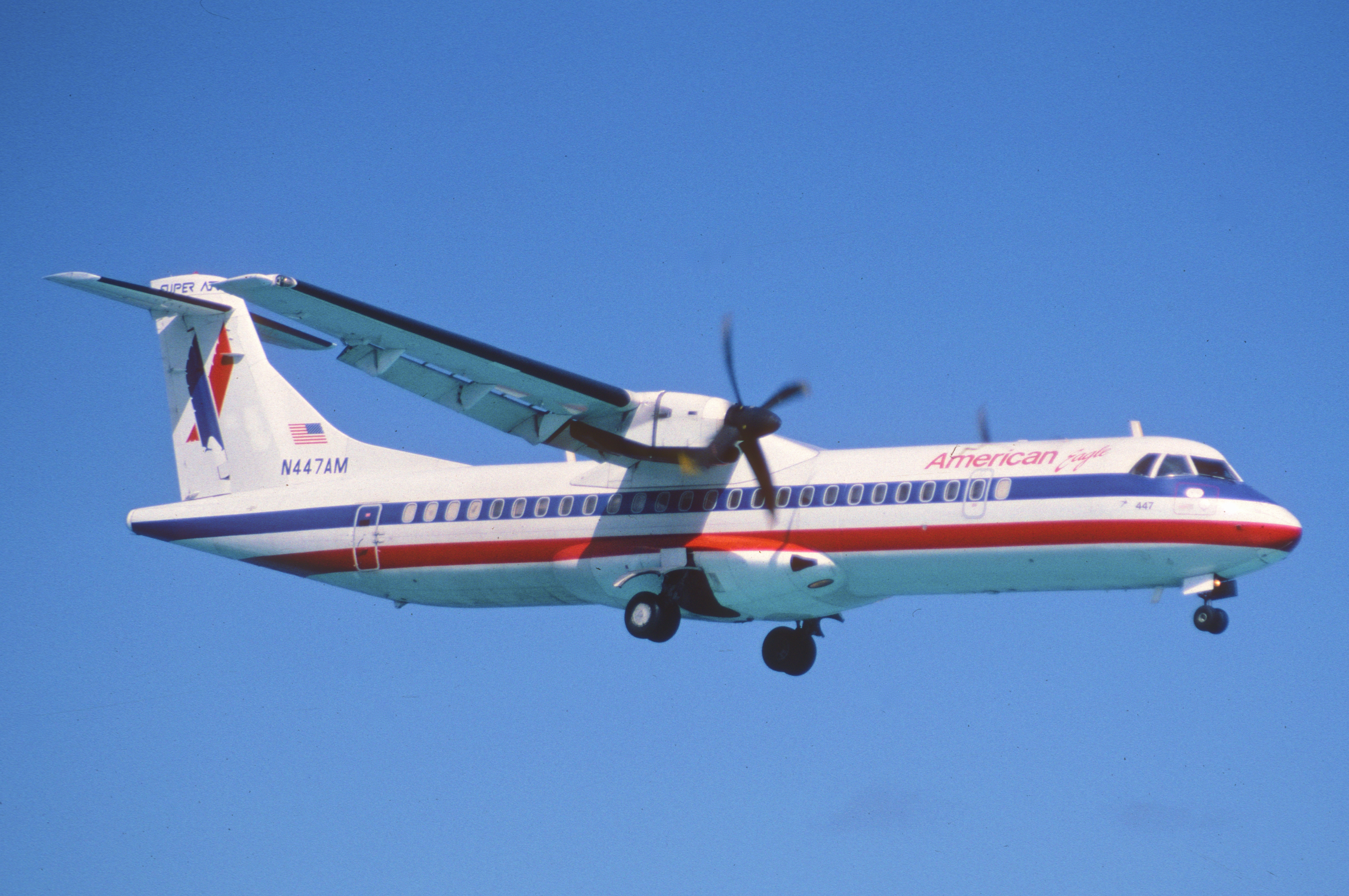 50ab - American Eagle ATR 72-212; N447AM@SXM;04.02.1999